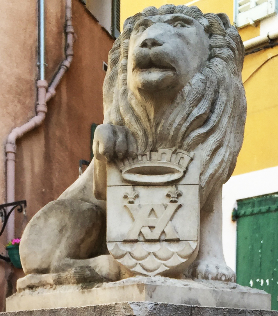 Coat of arms of Aubagne